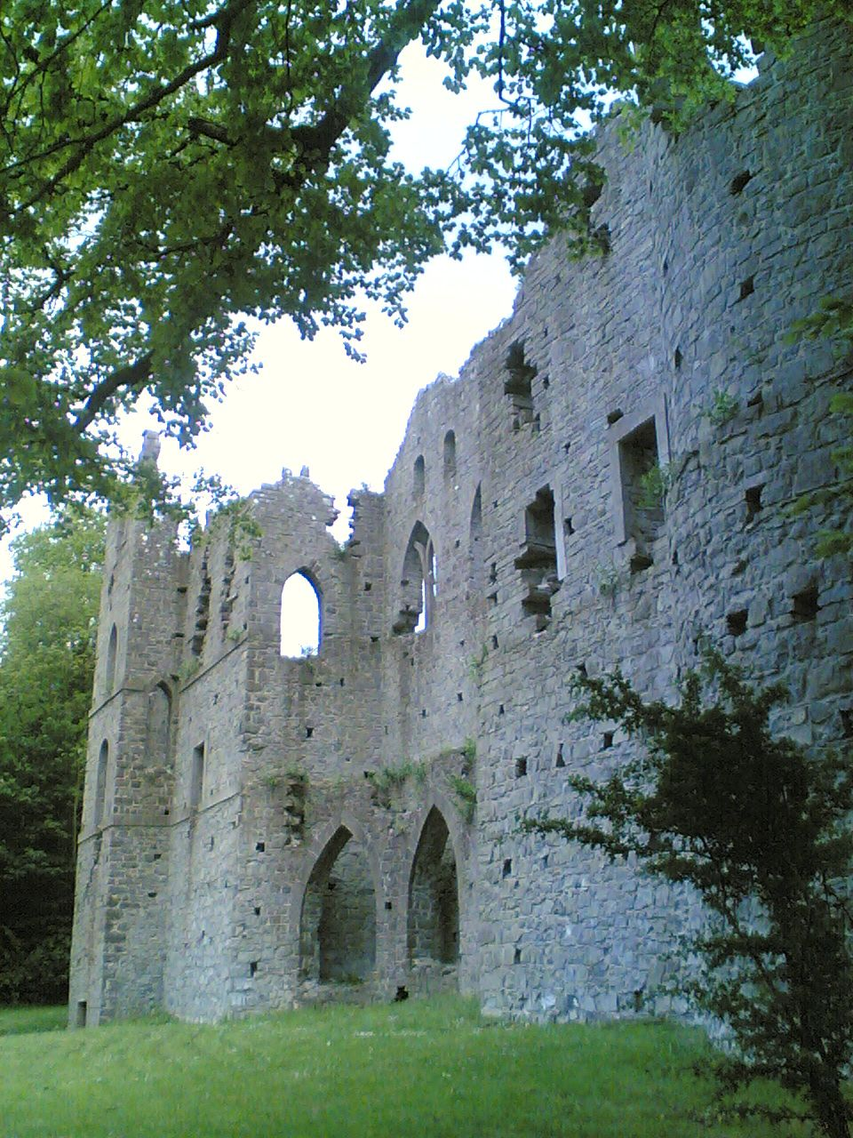 Ireland's largest folly, the Jealous Wall in the grounds of Belvedere House, near Mullingar in County Westmeath. This is an enormous pretend ruin built by the owner of Belvedere House to block the view of the neighbouring house, where his brother lived. He did not get on too well with his brother.